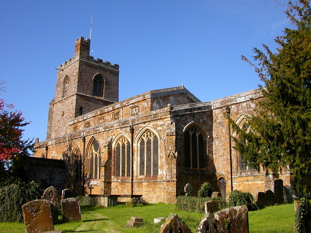 Church of England parish church of St Mary the Virgin, Cropredy, Oxfordshire, seen from the southeast